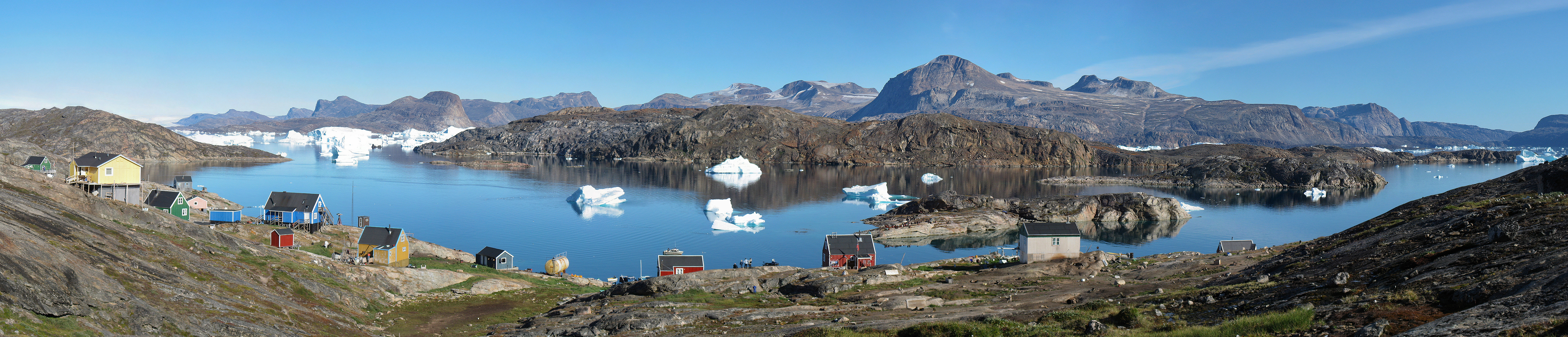 Panorama of the small settlement Naajaat in North-West Greenland. The Greenland ice sheet is seen to the upper left. The panoramic is based on hand-held photos taken with a Canon IXUS 800 IS compact camera. The stiching was done in PTGui with Smartblend.